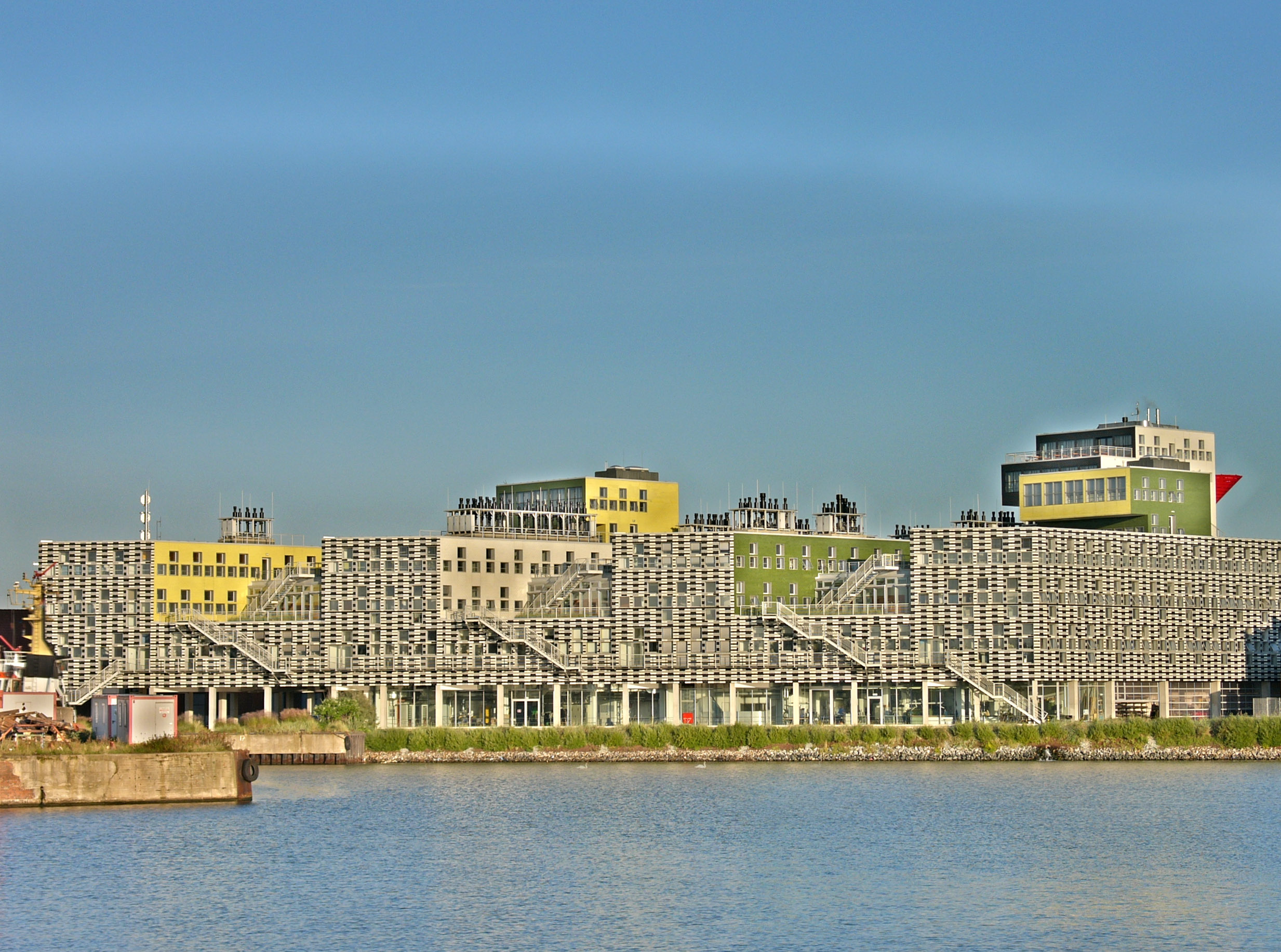 Building of the Alfred Wegener Institute for Polar and Marine Research, Bremerhaven, Germany. Build in 2004-2006 by Architect Otto Steidle.